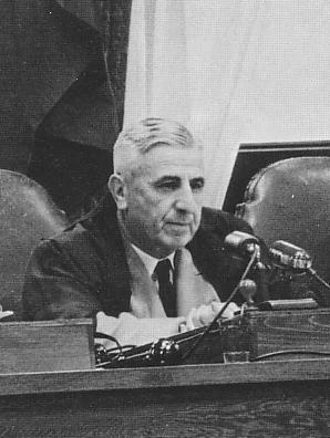 William Flood Webb